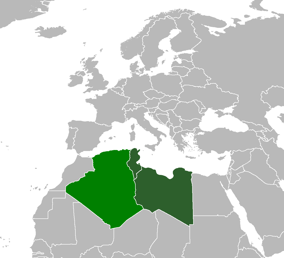 "United States of North Africa" (proposal by President Habib Bourguiba for Tunisia, Algeria and Libya 1973) and "Arab Islamic Republic" (proposal by Muammar al-Gaddafi for a union between Libya and Tunisia 1972/74)